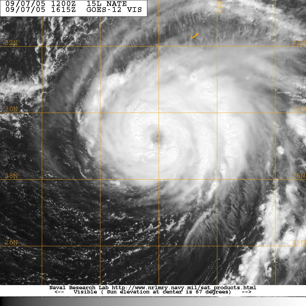 Hurricane Nate on September 7, 2005.